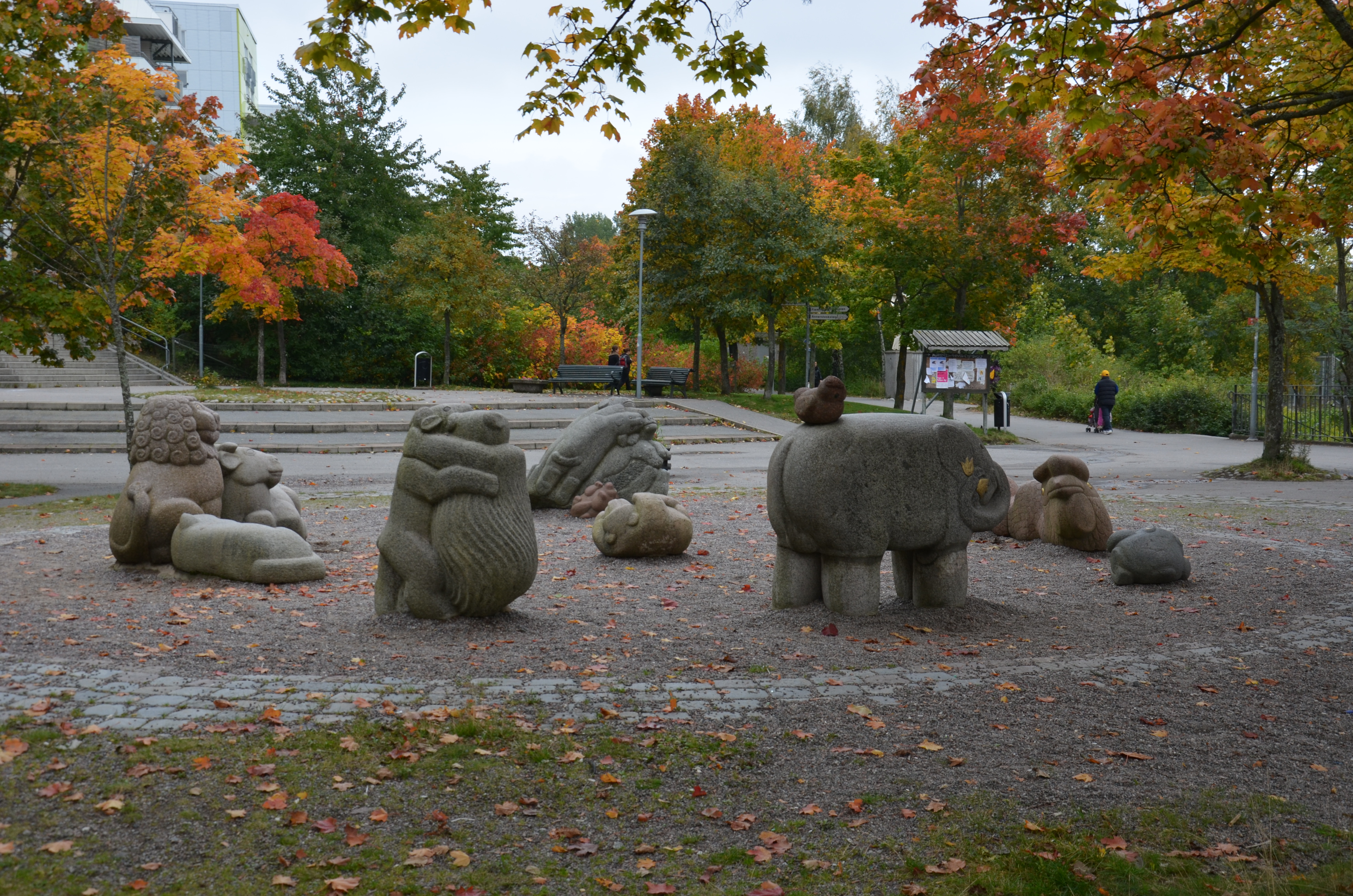 Sculpture Fredens rike (Kingdom of Peace) by Pye Engström , granite, 1992, outside the library at Flemingsberg in Huddinge Municipality, Sweden